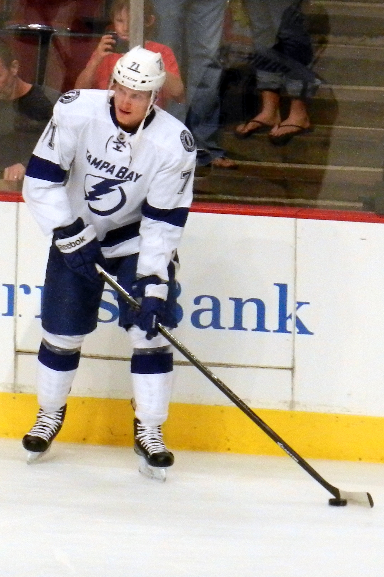 Richard Panik with the Tampa Bay Lightning during warm-up before a gamve vs. the Blackhawks at the United Center in Chicago